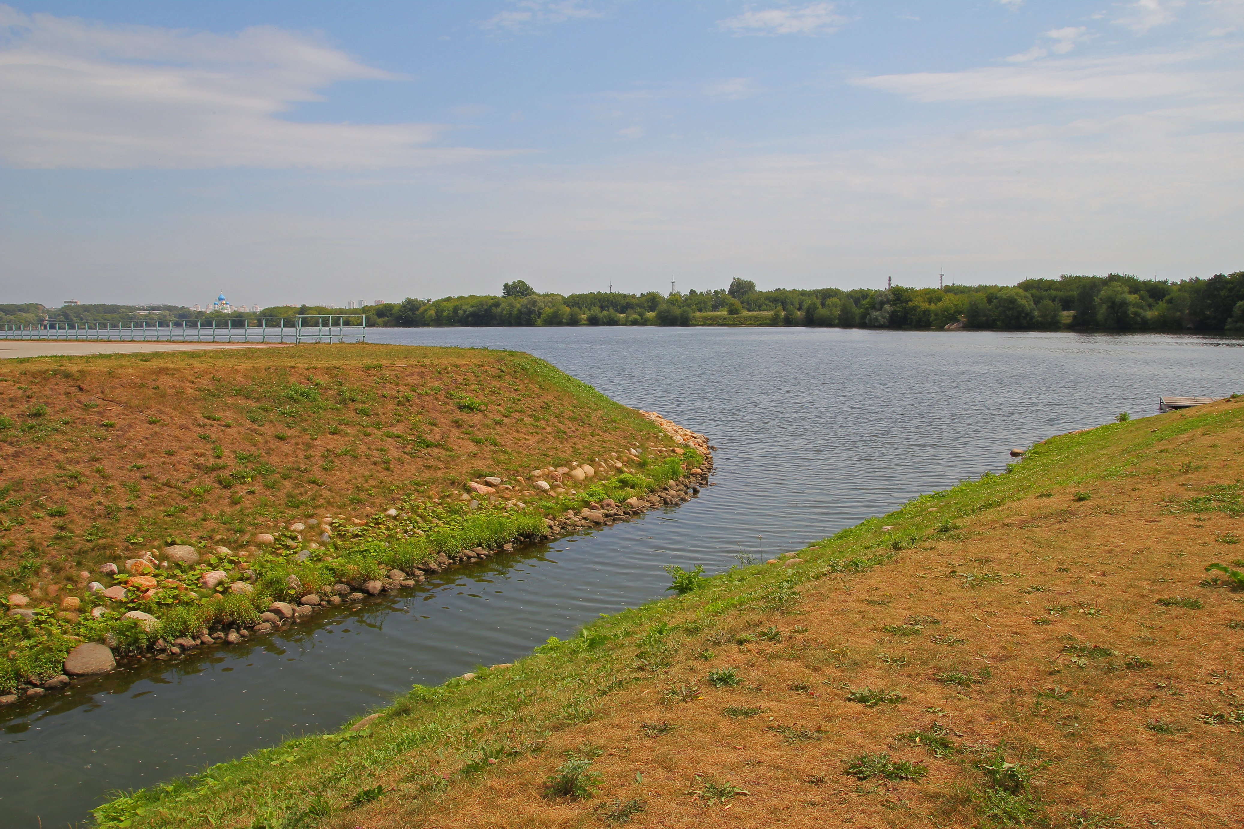 Kolomenskoe Museum Reserve in Moscow. Mouth of the Zhuzha River at the Moskva bank.